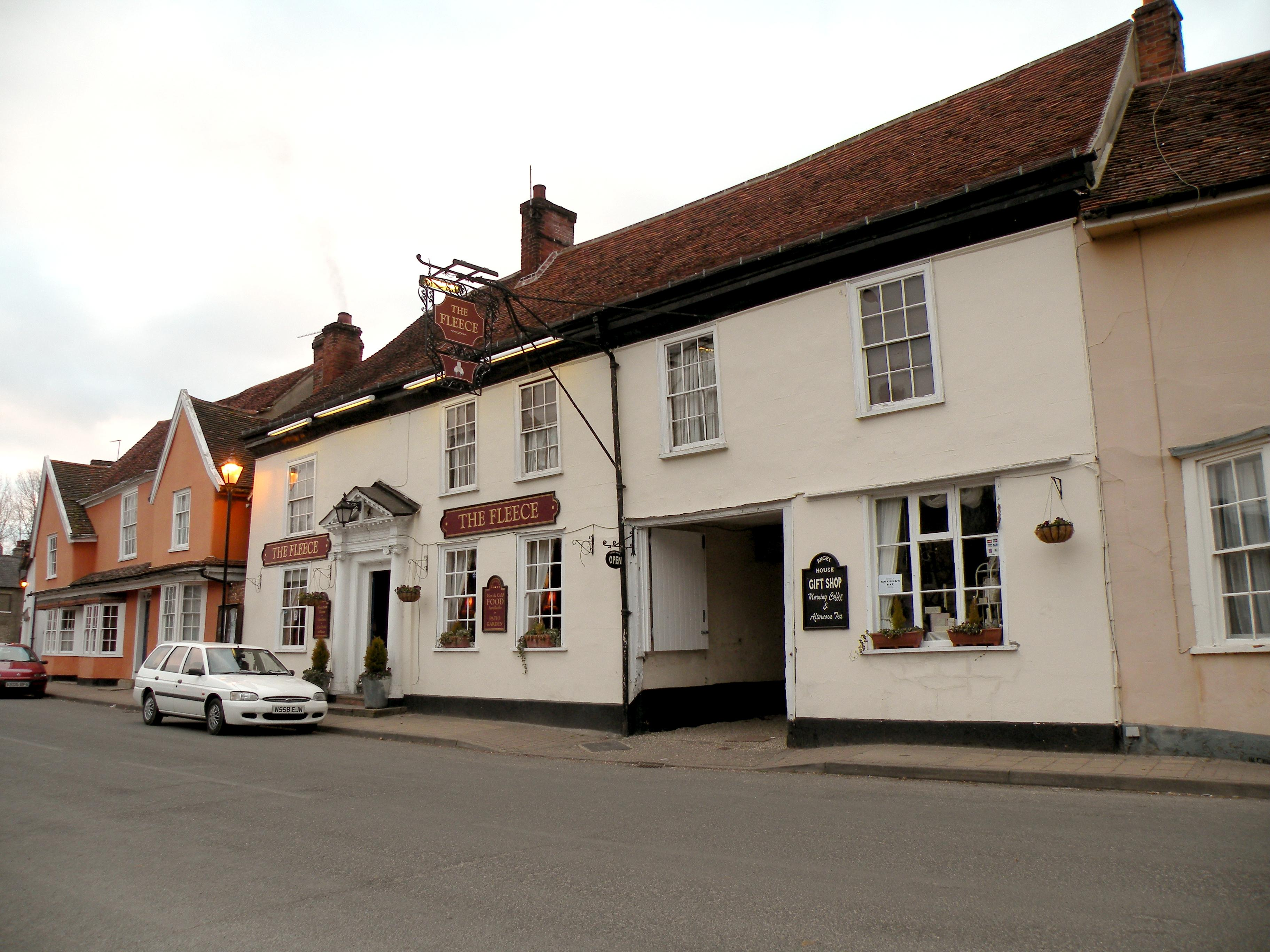 'The Fleece' hotel in Broad Street at Boxford. This old coaching inn dates back to the 15th century.